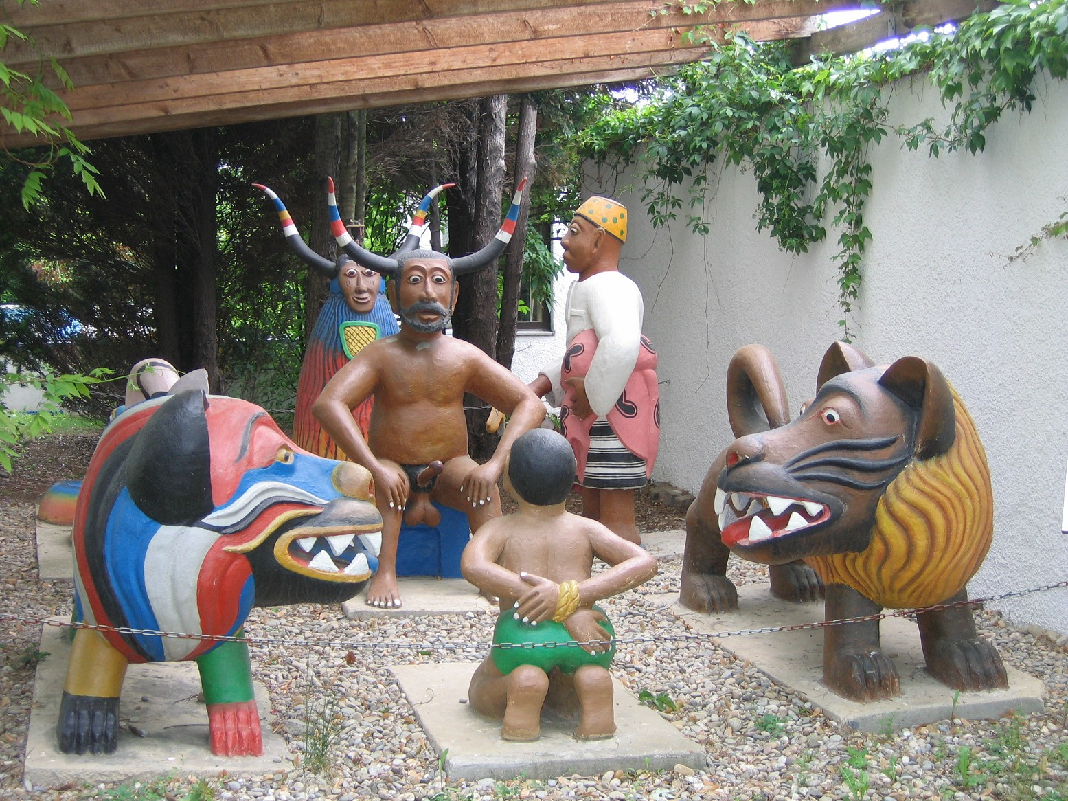 Cyprien Tokoudagba, Voodoo Pantheon. The sculpture group shows the Voodoo gods Zangbeto (with Horns, in the background), and Legba, sitting naked, judging a sinner. The group was originally crafted for the exhibition Magiciens de la terre in 1989 at the Centre Pompidou in Paris, France. After the exhibition, it was given as present by the artist to Arthur Benseler, the owner of the Africa house in Freiberg am Neckar.